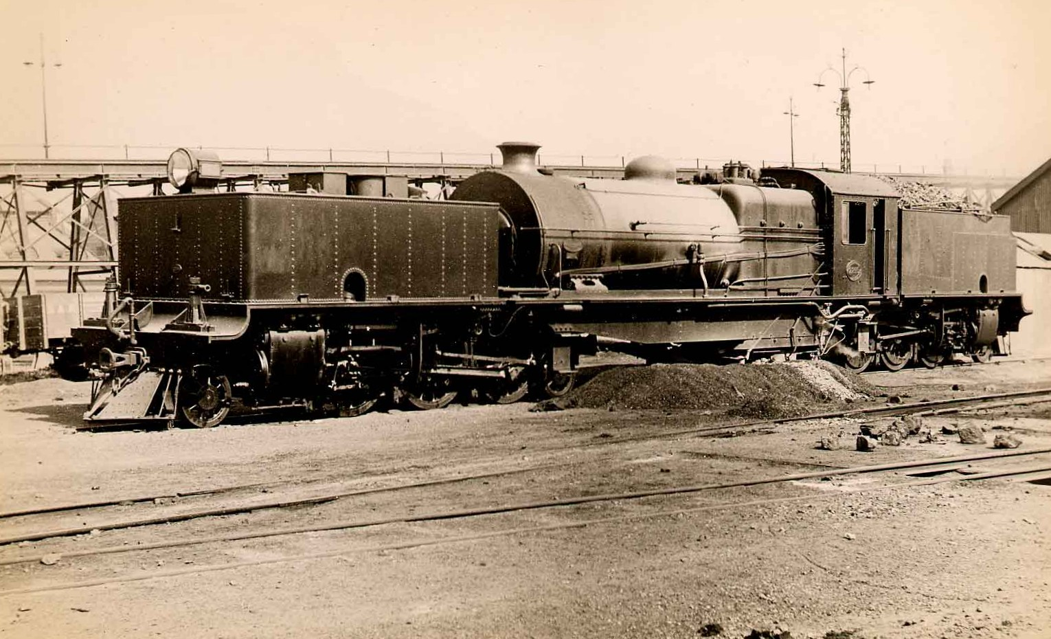 SAR Class GG 2290 (2-6-2+2-6-2) Location: Old Cape Town Loco near Tennant Road